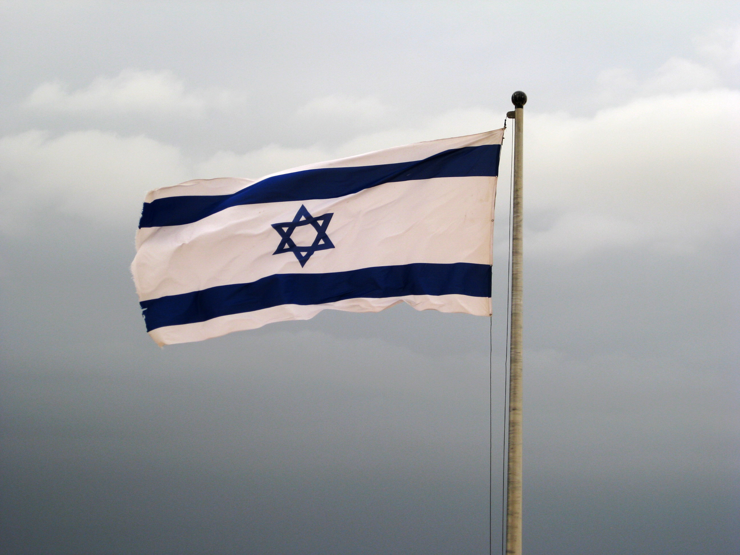 Flag of Israel